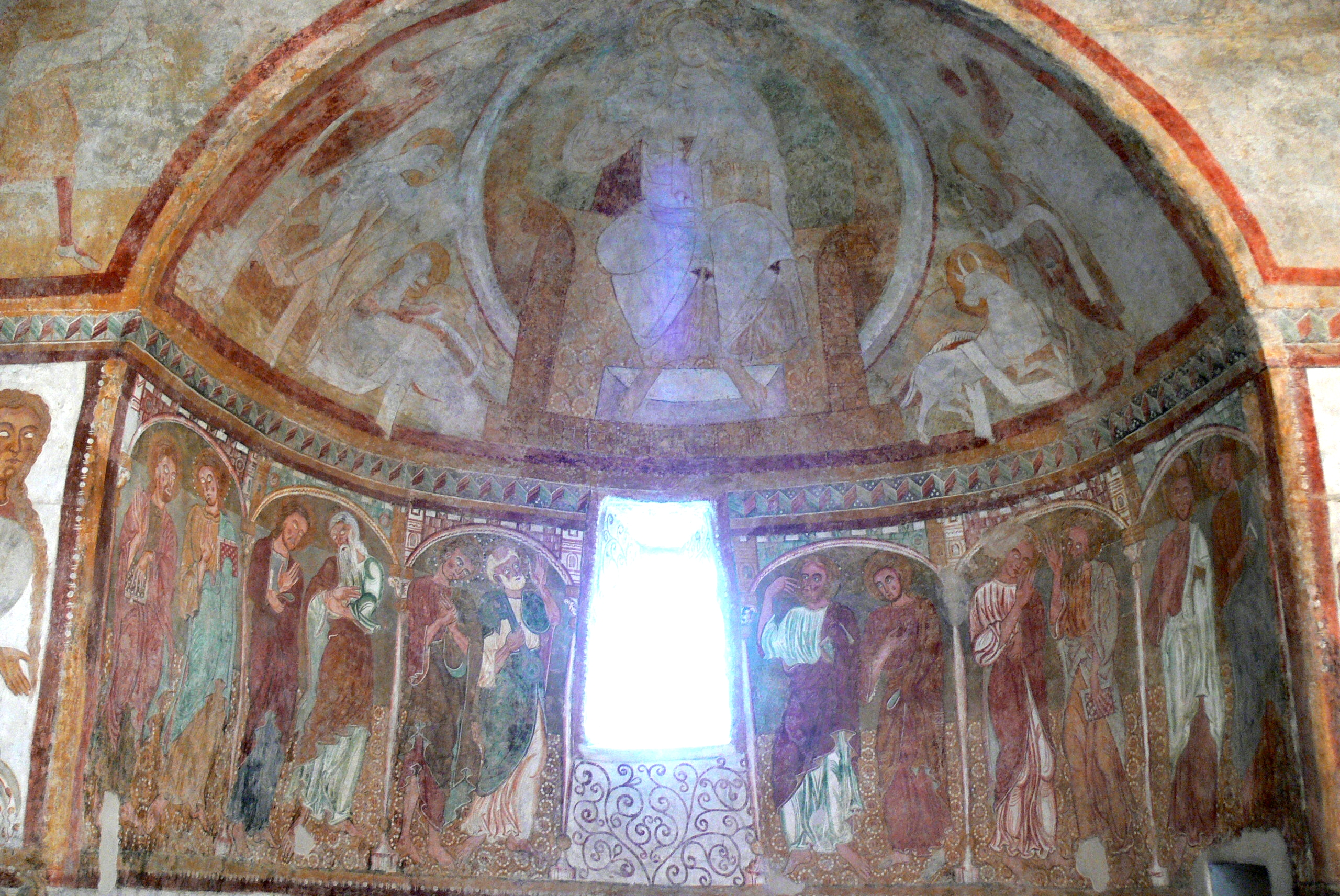 Tramin ( South Tyrol ). Saint James church in Kastelaz: Apse with romanesque frescos ( 1210s ) : Majestas Domini with apostles.